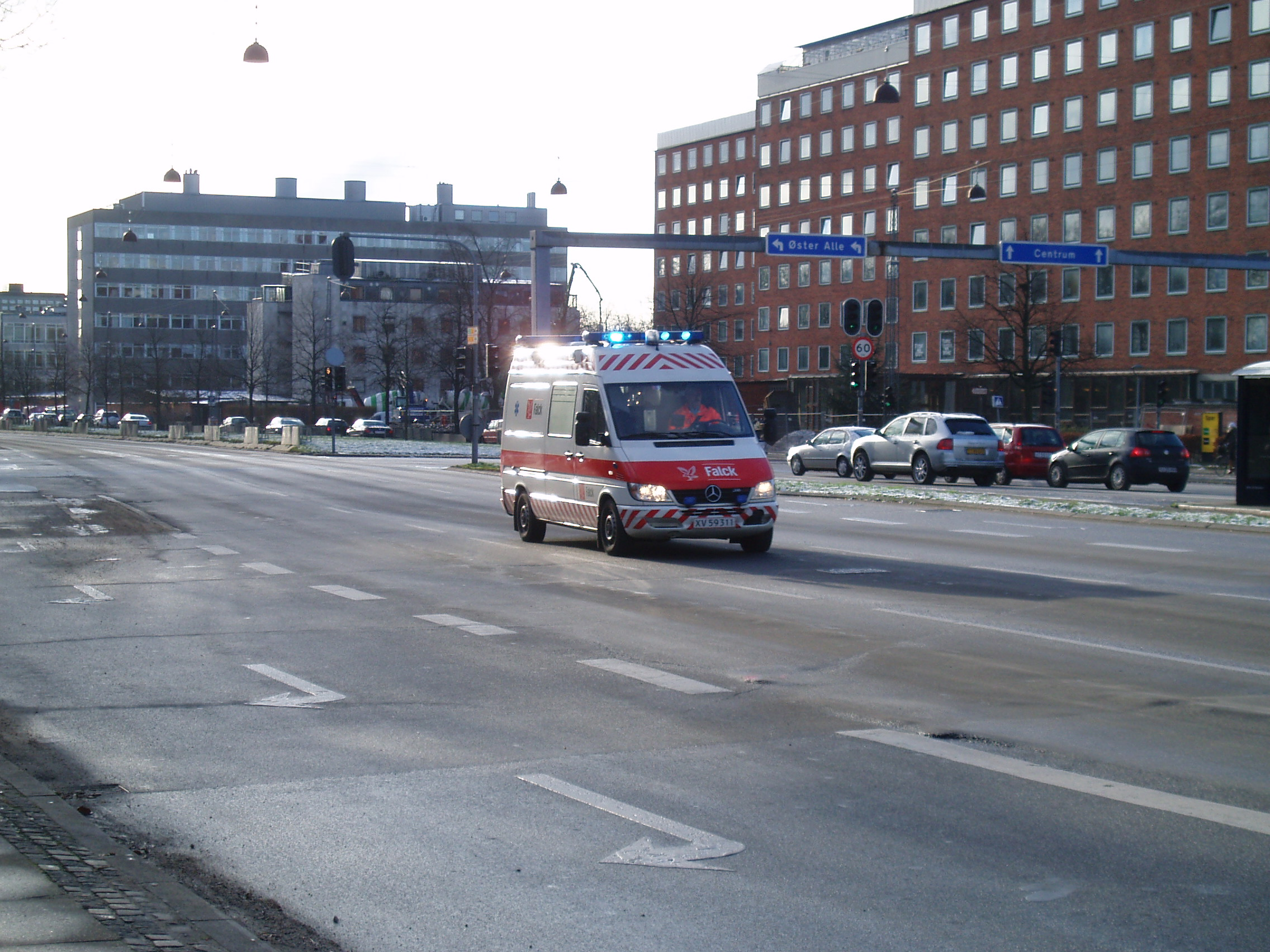 Falck ambulance heading north on Nørre Allé in Copenhagen.